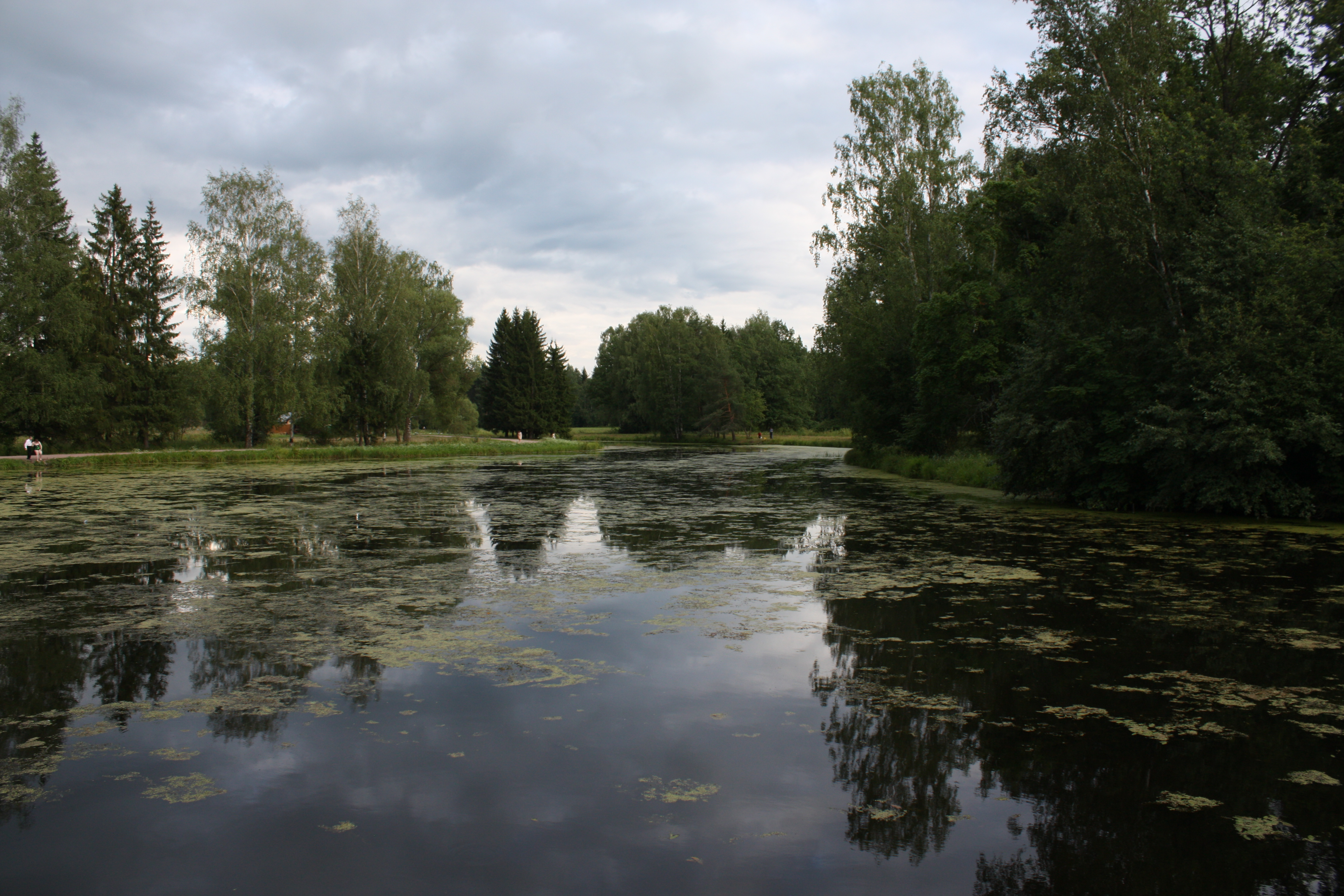 Ponds in Pavlovsk in summer overcast day.